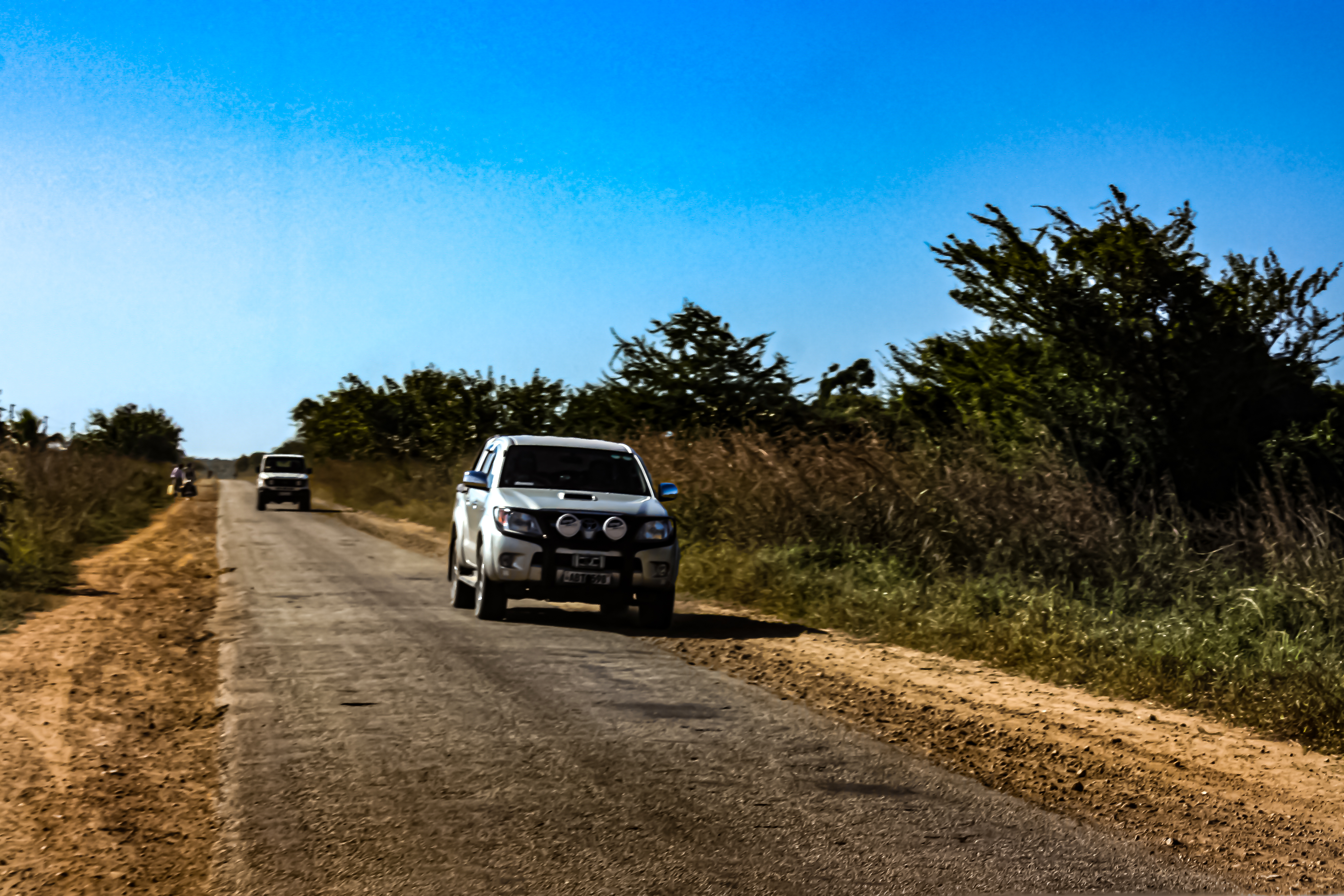 This is an image with the theme "Africa on the Move or Transport" from: Mozambique